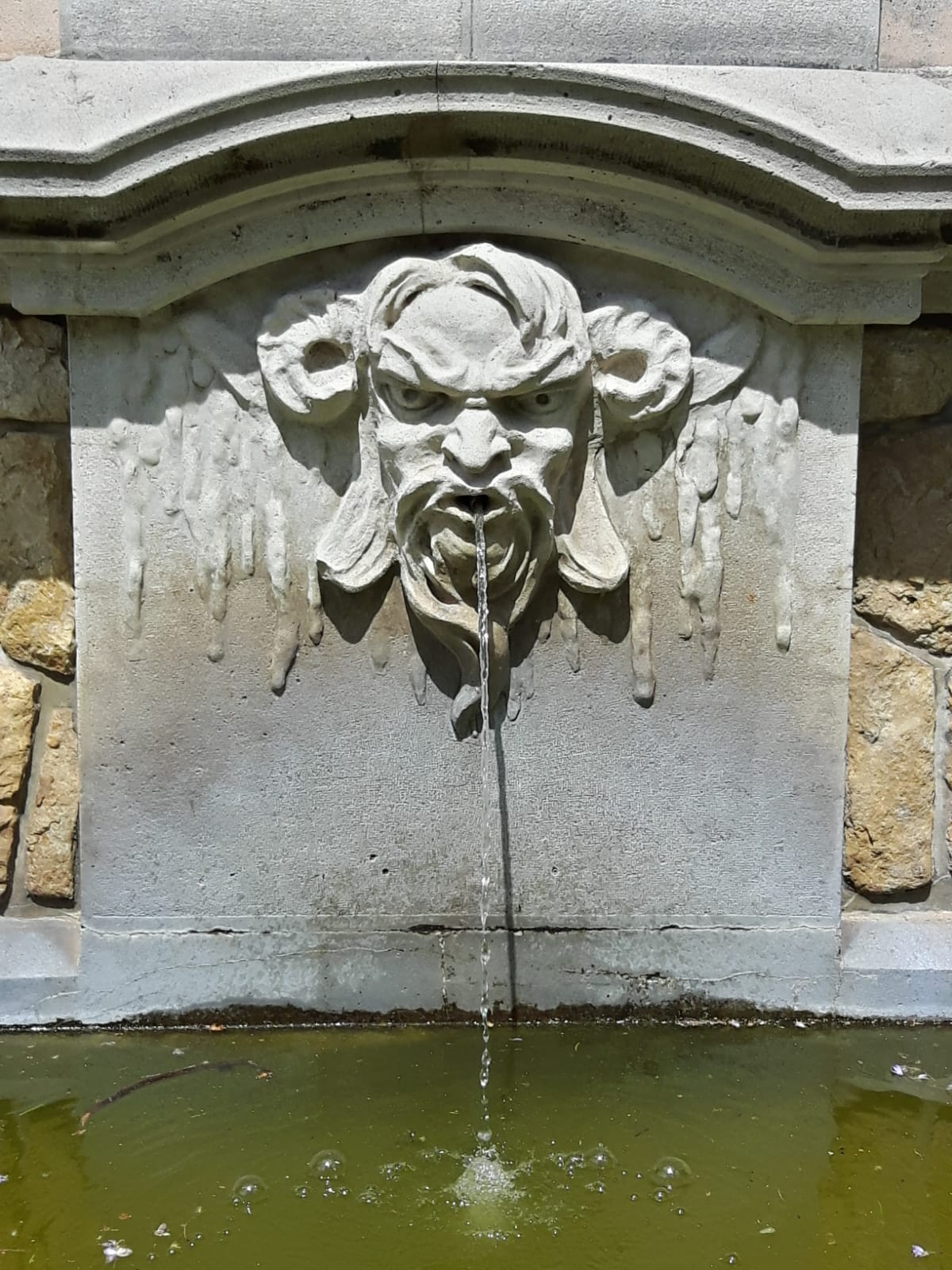 Maison de l'Enfance - Annecy